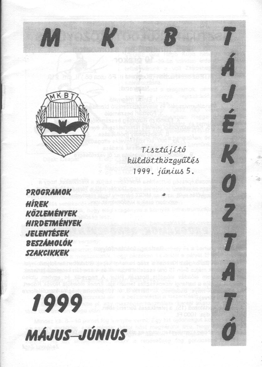 Az MKBT Tájékoztató 1999 may-june frontpage